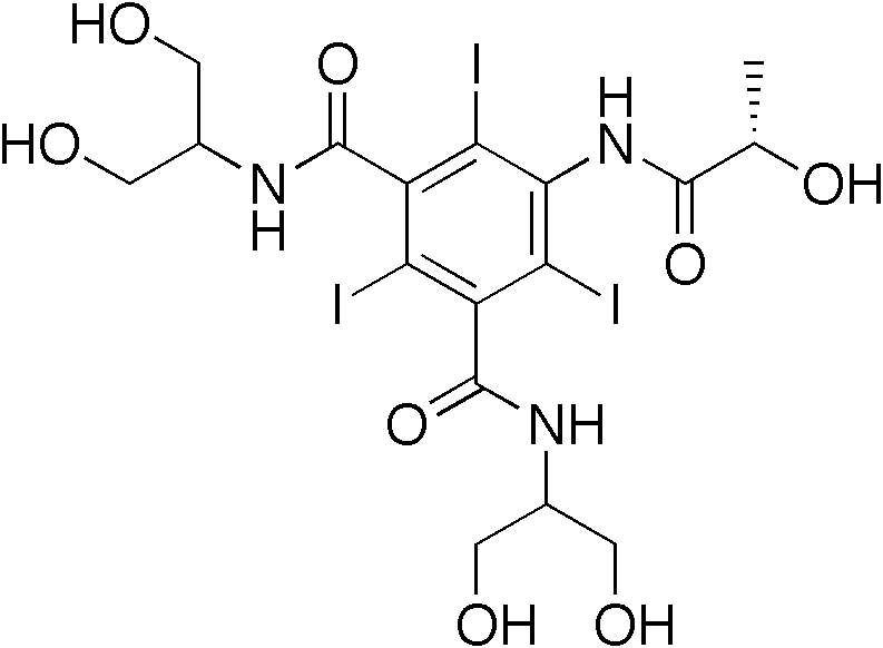 chemical structure of lopamidol